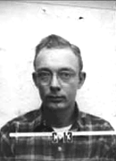 American chemist Arthur C. Wahl — Los Alamos National Laboratory